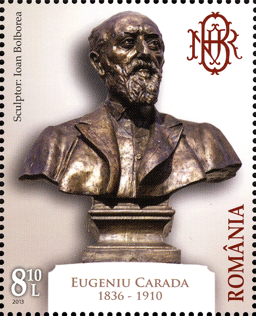 Stamps of Romania, 2013